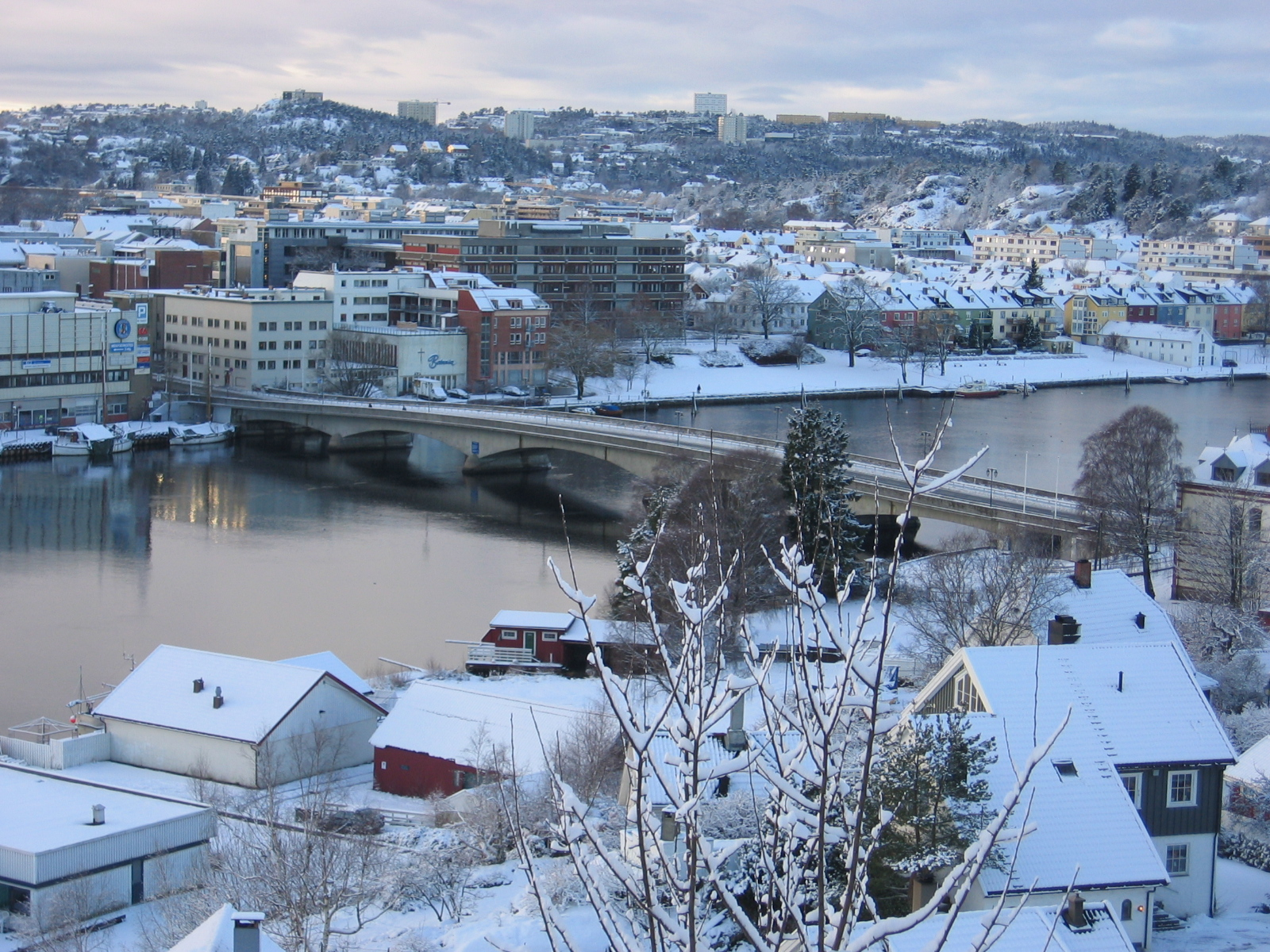 Otra running through Kristiansand. The bridge is called Thygesons Minde, but is popularly known as Lundsbroa (The Lund bridge).View of Kvadraturen (city centre of Kristiansand) from Lund.